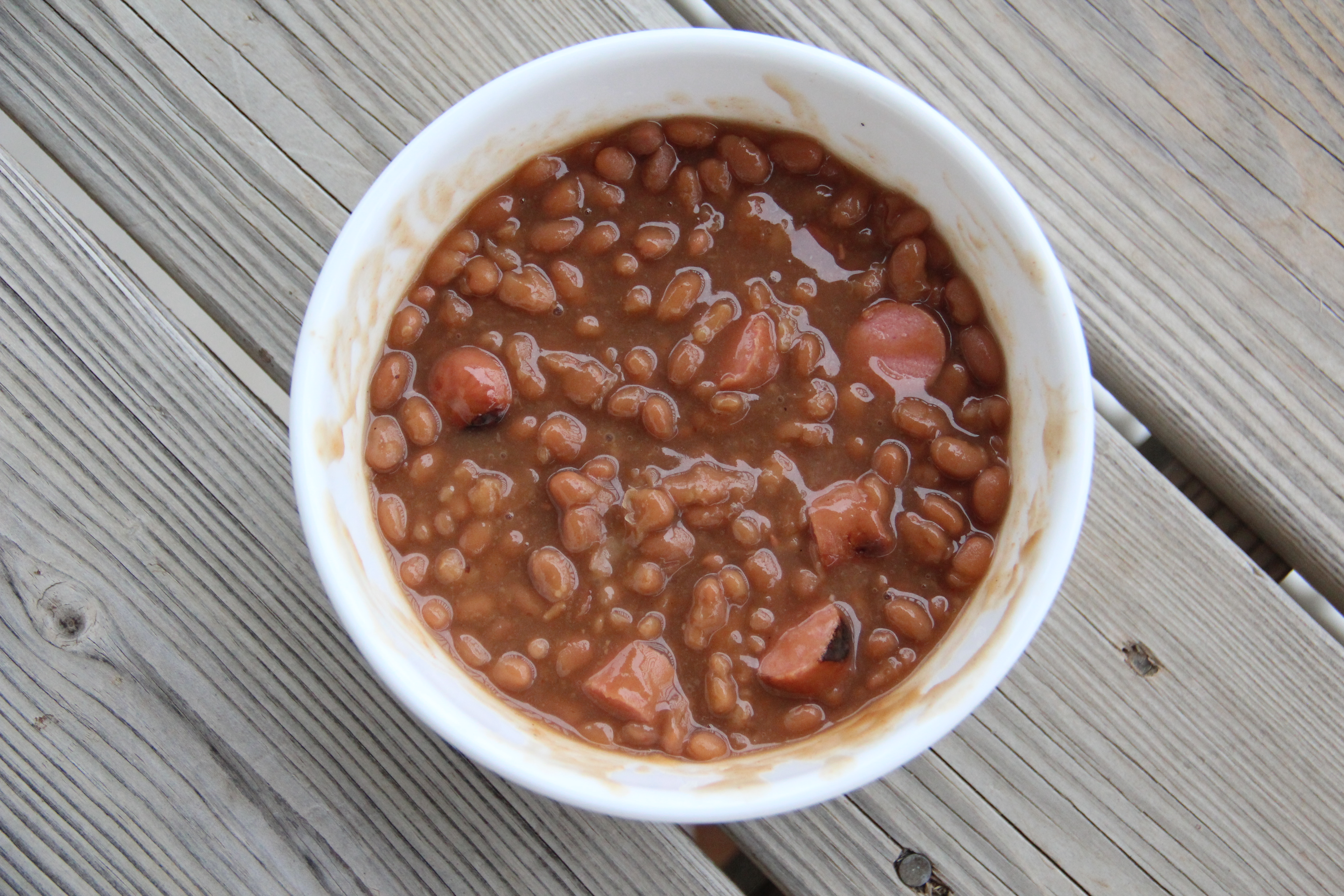 A bowl of Beanie Weenies, made with baked beans and sliced hot dogs.